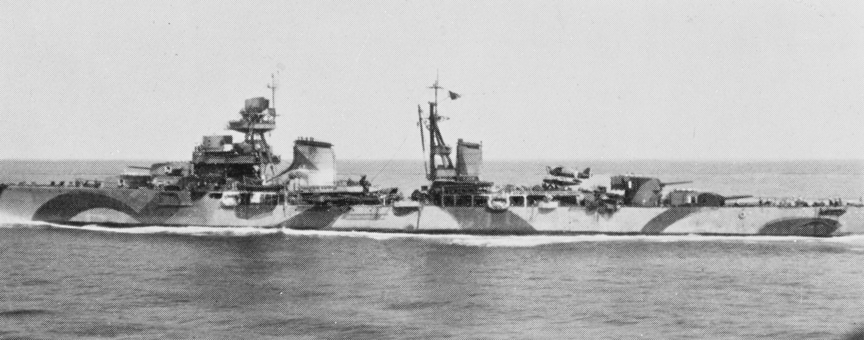 The Italian light cruiser Luigi Cadorna surrendering at Malta on 9 September 1943.